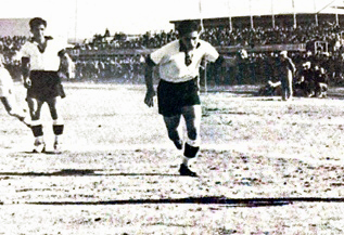 Lebanese forward Kamil against Mandatory Palestine.